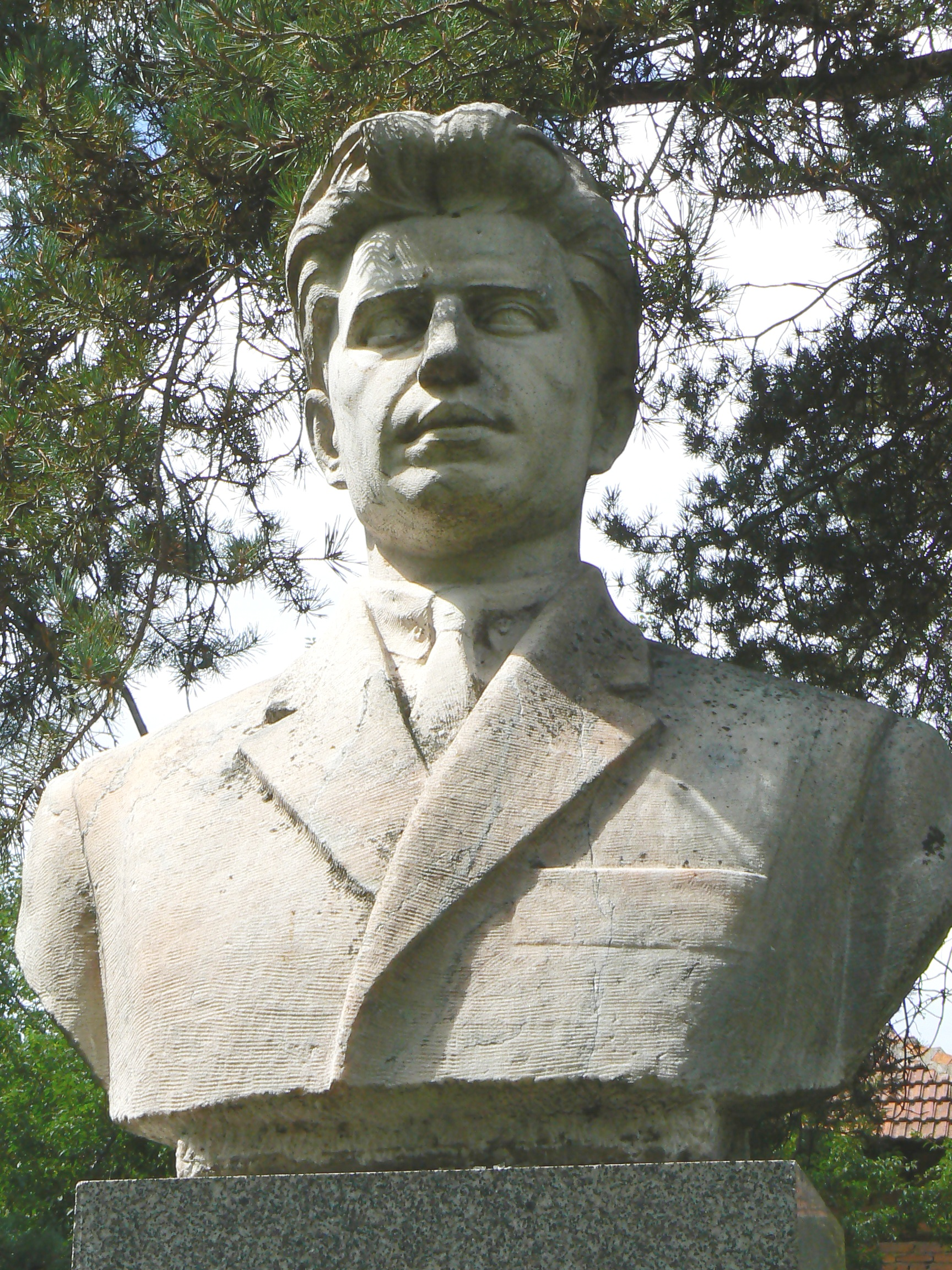 Monument of the Bulgarian poet Hristo Yasenov in Etropole, Bulgaria